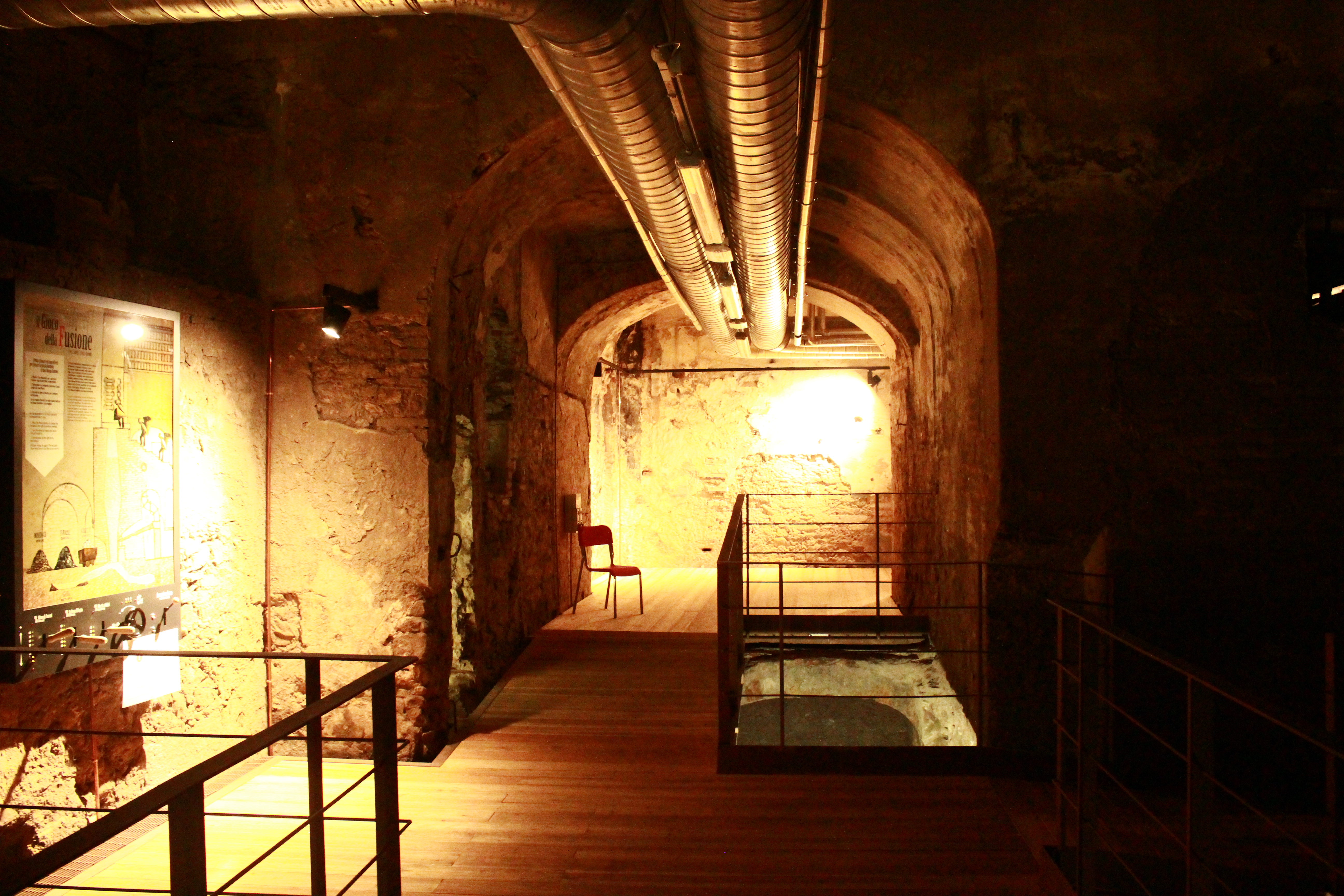 MAGMA Follonica